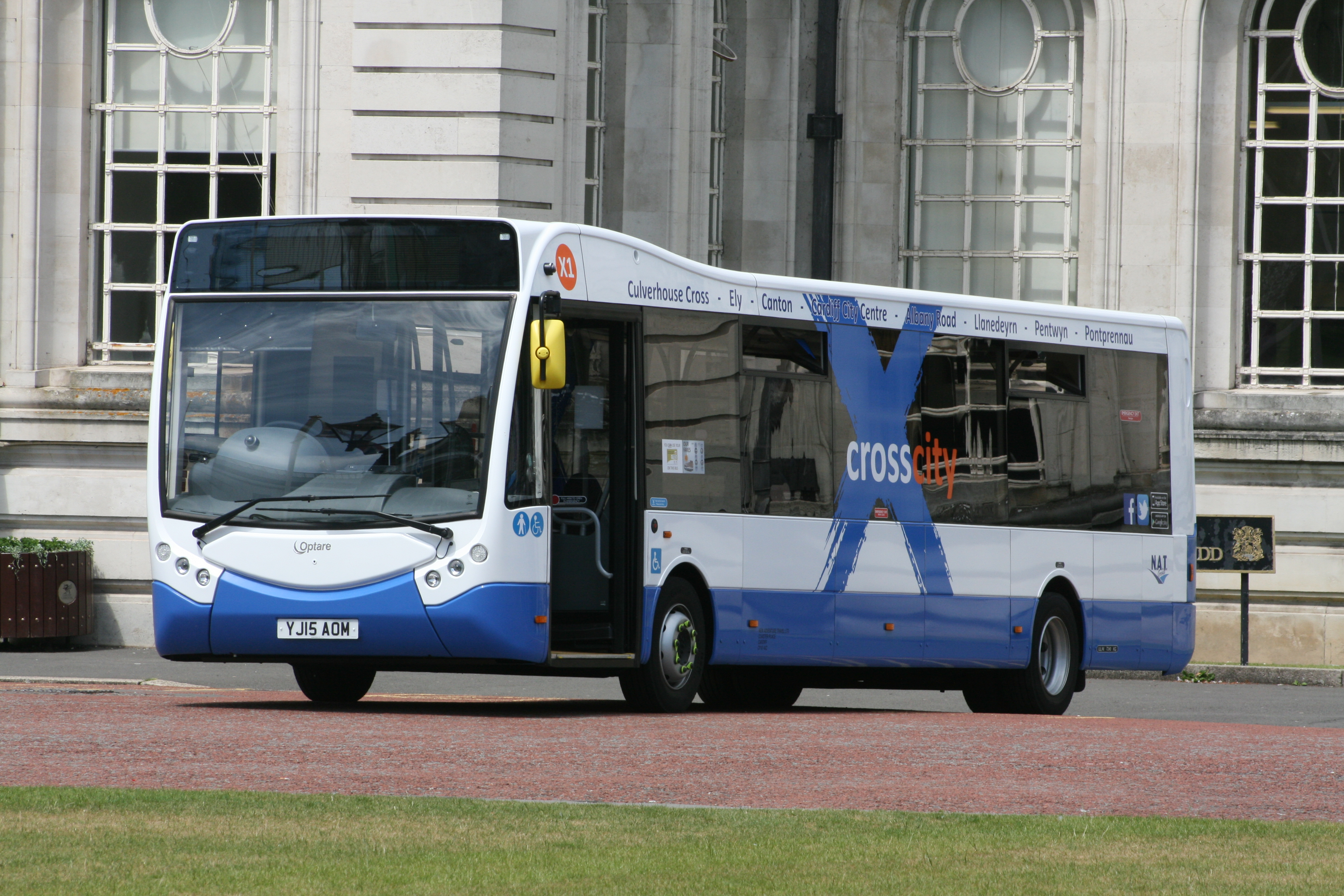 NAT's_Optare_bus_on_the_X1_service, outside Cardiff City Hall, Cathays Park, Cardiff, Wales, United Kingdom.